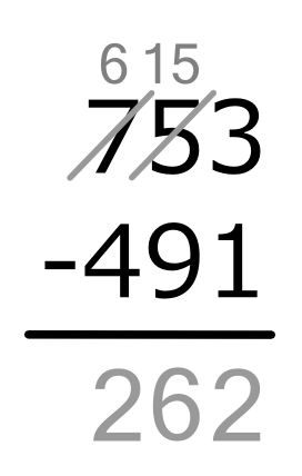 Vertical Subtraction, with borrowing